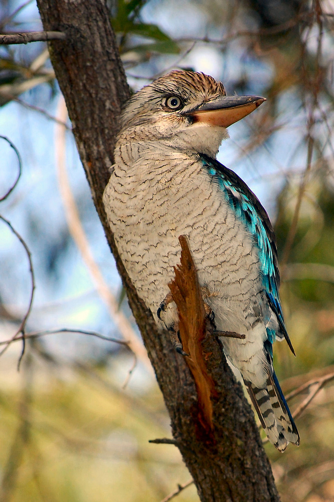 Blue-winged Kookaburra Dacelo leachii, Gladstone, Queensland, Australia